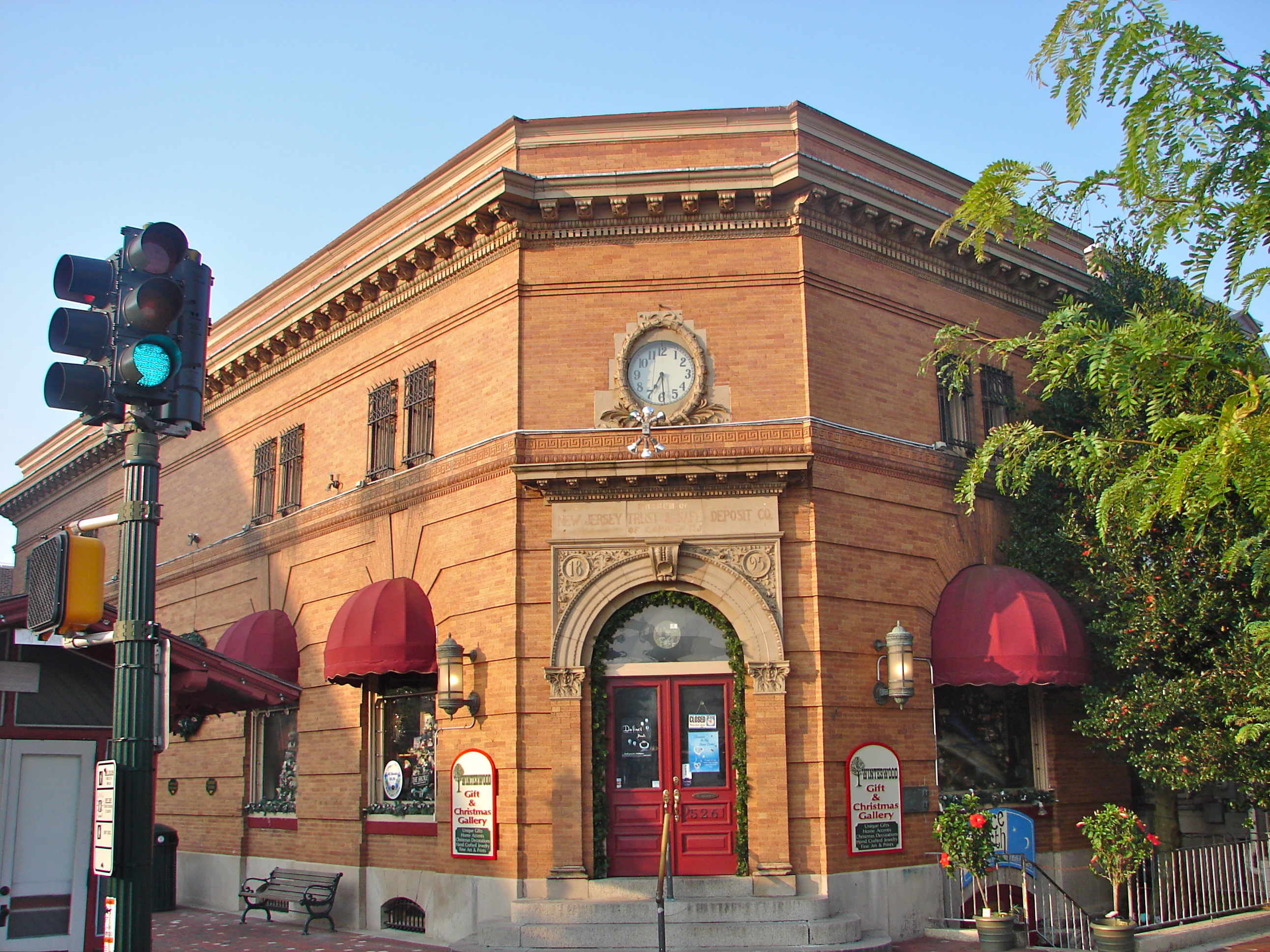 New Jersey Trust and Safety Deposit Company building on Washington Street in Cape May Historic District, Cape May New Jersey